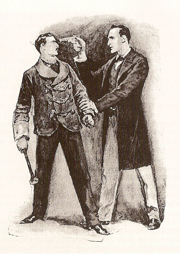 Sherlock Holmes in The Beryl Coronet, which appeared in The Strand Magazine in May, 1892. Original caption was "I CLAPPED A PISTOL TO HIS HEAD."